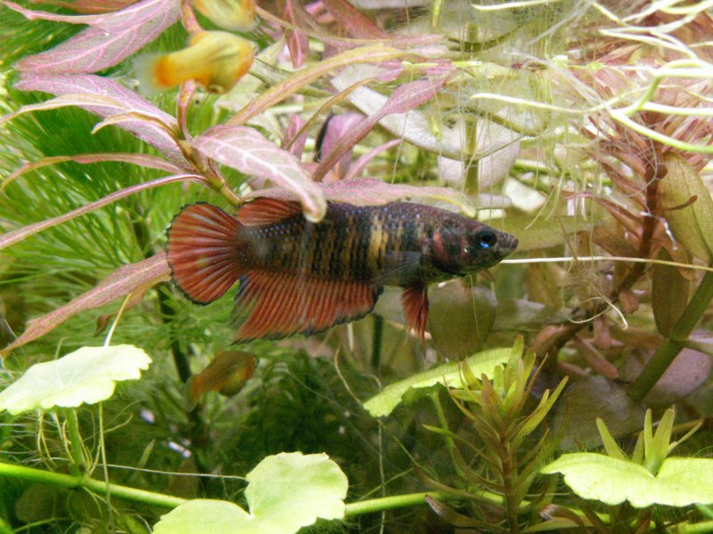 Female Siamese fighting fish (Betta splendens)